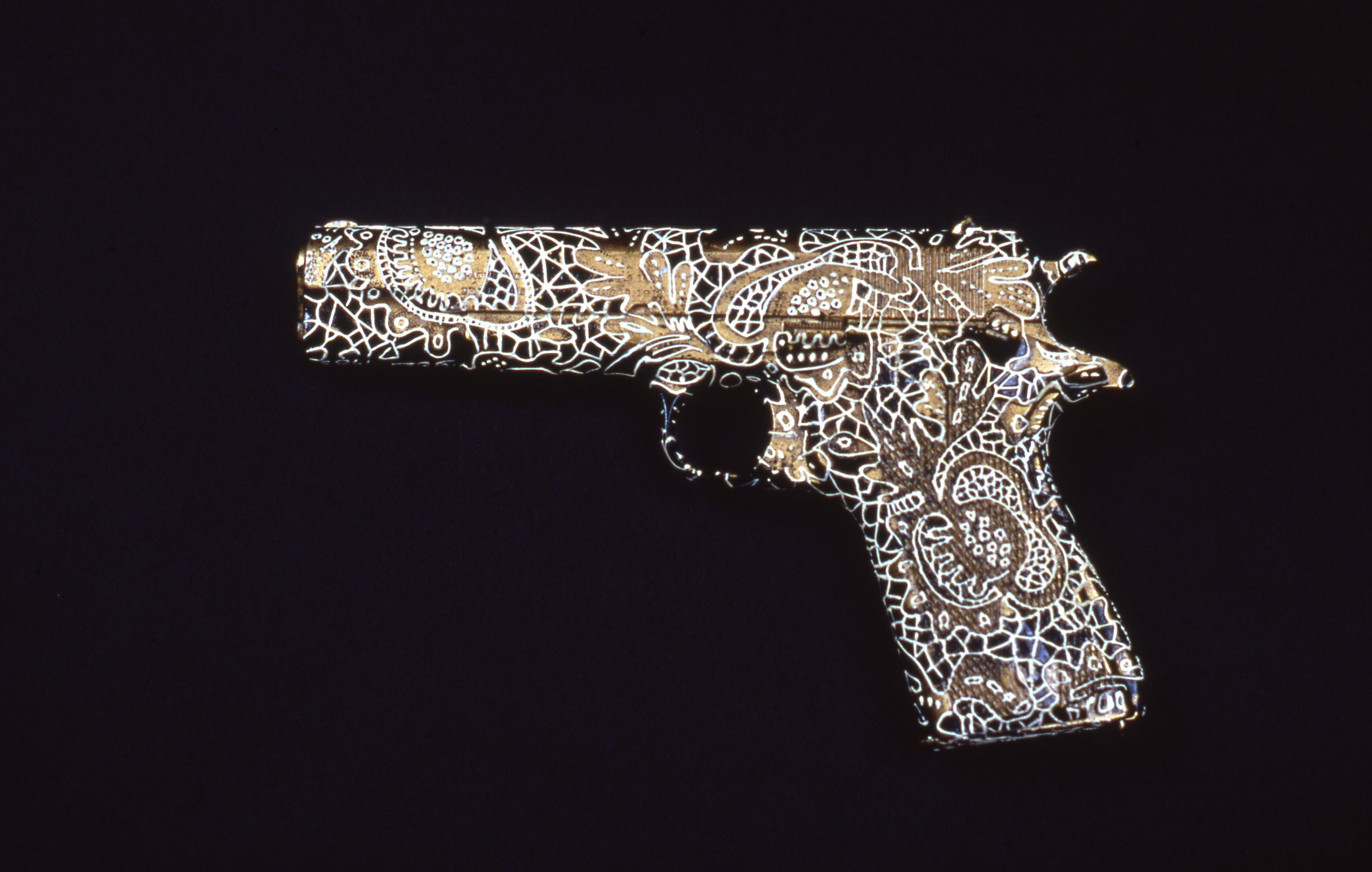 Lace-painted handgun by Phyllis Yes entitled "Mrs. Johnson's Gun".